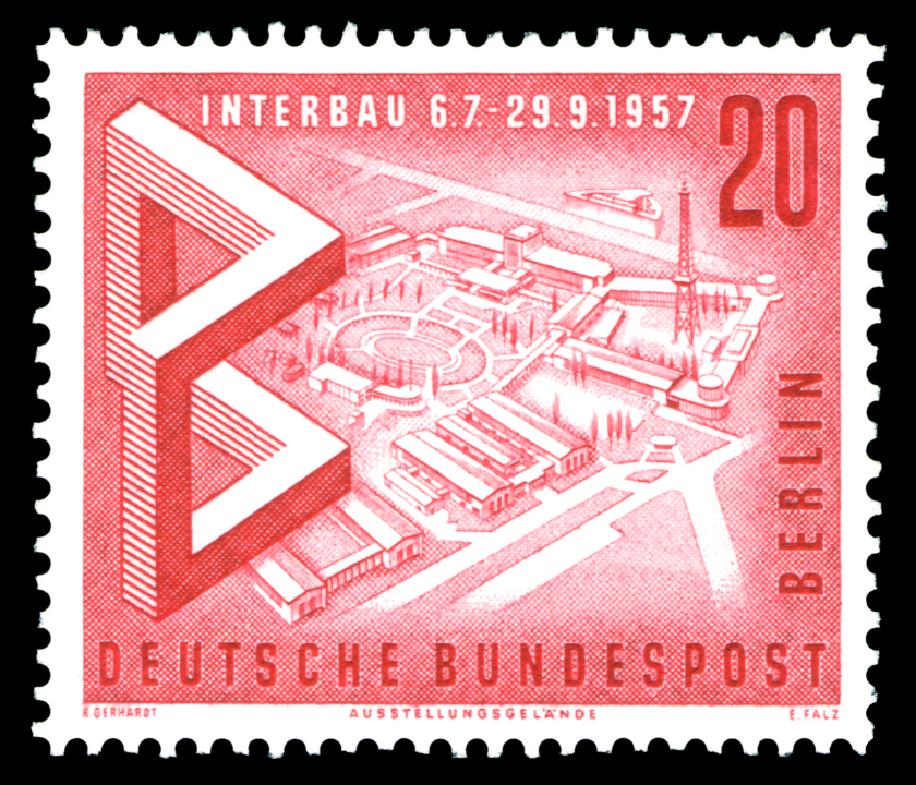 stamp for the international exhibition of building structure Interbau